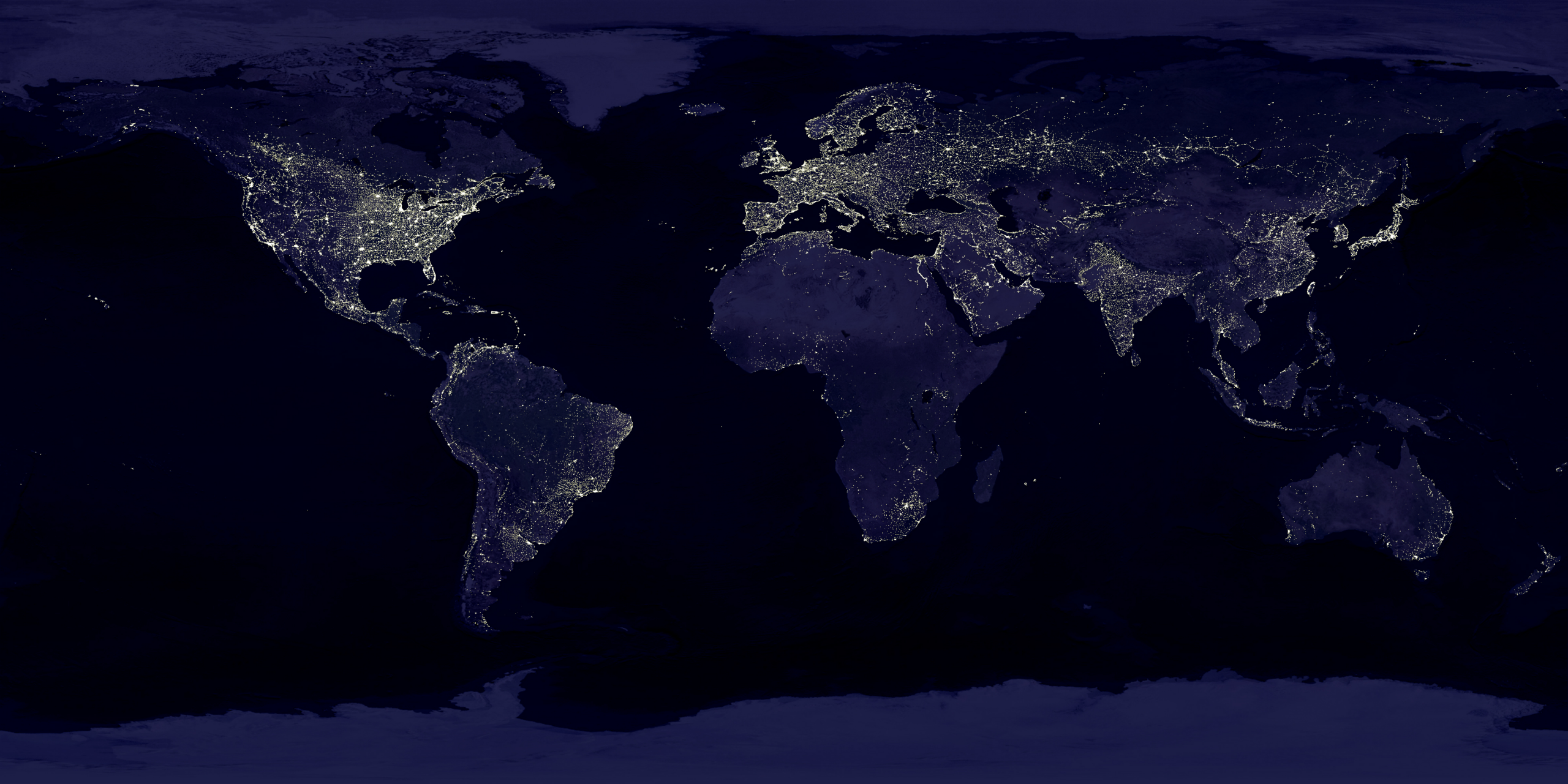 This image of Earth’s city lights was created with data from the Defense Meteorological Satellite Program (DMSP) Operational Linescan System (OLS). Originally designed to view clouds by moonlight, the OLS is also used to map the locations of permanent lights on the Earth’s surface. The brightest areas of the Earth are the most urbanized, but not necessarily the most populated. (Compare western Europe with China and India.) Cities tend to grow along coastlines and transportation networks. Even without the underlying map, the outlines of many continents would still be visible. The United States interstate highway system appears as a lattice connecting the brighter dots of city centers. In Russia, the Trans-Siberian railroad is a thin line stretching from Moscow through the center of Asia to Vladivostok. The Nile River, from the Aswan Dam to the Mediterranean Sea, is another bright thread through an otherwise dark region. Even more than 100 years after the invention of the electric light, some regions remain thinly populated and unlit. Antarctica is entirely dark. The interior jungles of Africa and South America are mostly dark, but lights are beginning to appear there. Deserts in Africa, Arabia, Australia, Mongolia, and the United States are poorly lit as well (except along the coast), along with the boreal forests of Canada and Russia, and the great mountains of the Himalaya.